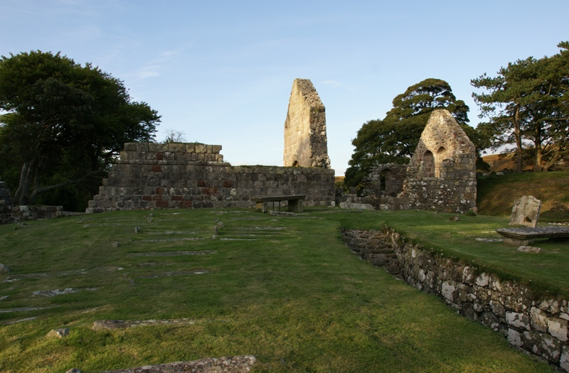 St Blane's Church, Bute, Scotland. View from the south.